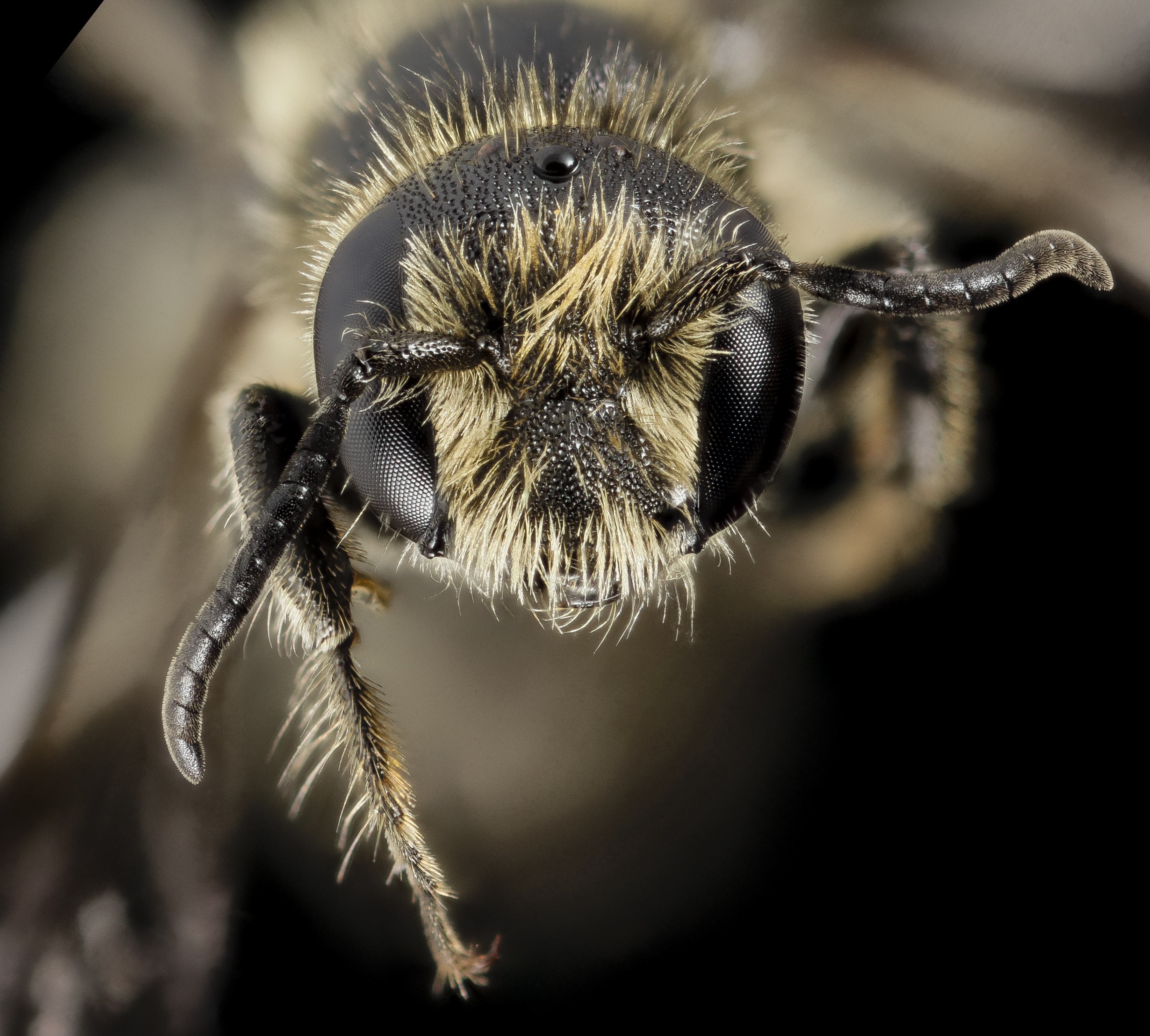 A series of pictures of a male and female species that loves Bellflowers (Campanula). Meaning that the female of this species provisions its nest (note: males never help in all Hymenoptera) with the pollen of this plant. The interesting thing here is that this species originates in Europe and that it only became established after the widespread invasive creeping bellflower came into the continent. This bee species has now been found in New England, Ontario, and New York....and expected to spread. 13:47, 9 August 2014 (UTC)13:47, 9 August 2014 (UTC) 0 13:47, 9 August 2014 (UTC)13:47, 9 August 2014 (UTC) All photographs are public domain, feel free to download and use as you wish. Photography Information: Canon Mark II 5D, Zerene Stacker, Stackshot Sled, 65mm Canon MP-E 1-5X macro lens, Twin Macro Flash in Styrofoam Cooler, F5.0, ISO 100, Shutter Speed 200 The murmuring of bees has ceased; But murmuring of some Posterior, prophetic, Has simultaneous come,-- The lower metres of the year, When nature's laugh is done,-- The Revelations of the book Whose Genesis is June. -Emily Dickinson Want some Useful Links to the Techniques We Use? Well now here you go Citizen: Basic USGSBIML set up: USGSBIML Photoshopping Technique: Note that we now have added using the burn tool at 50% opacity set to shadows to clean up the halos that bleed into the black background from "hot" color sections of the picture. PDF of Basic USGSBIML Photography Set Up: ftp://ftpext.usgs.gov/pub/er/md/laurel/Droege/How%20to%20Take%20MacroPhotographs%20of%20Insects%20BIML%20Lab2.pdf Google Hangout Demonstration of Techniques: or Excellent Technical Form on Stacking: Contact information: Sam Droege 301 497 5840